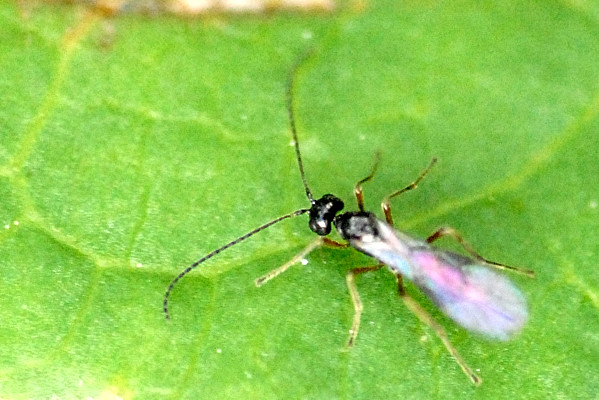 Cotesia tetrica from Commanster, Belgian High Ardennes .